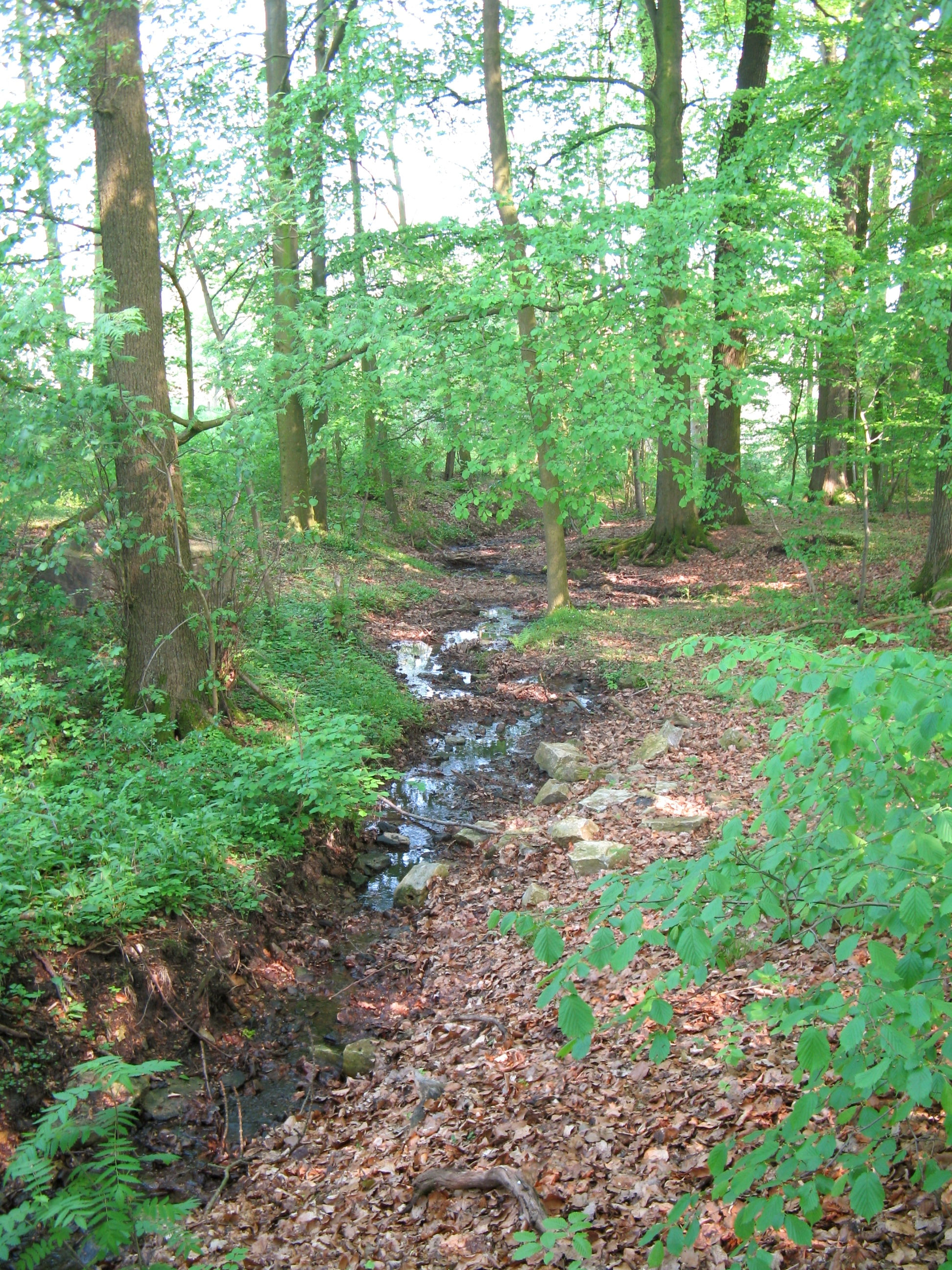 Origin of Werre river in Wehren